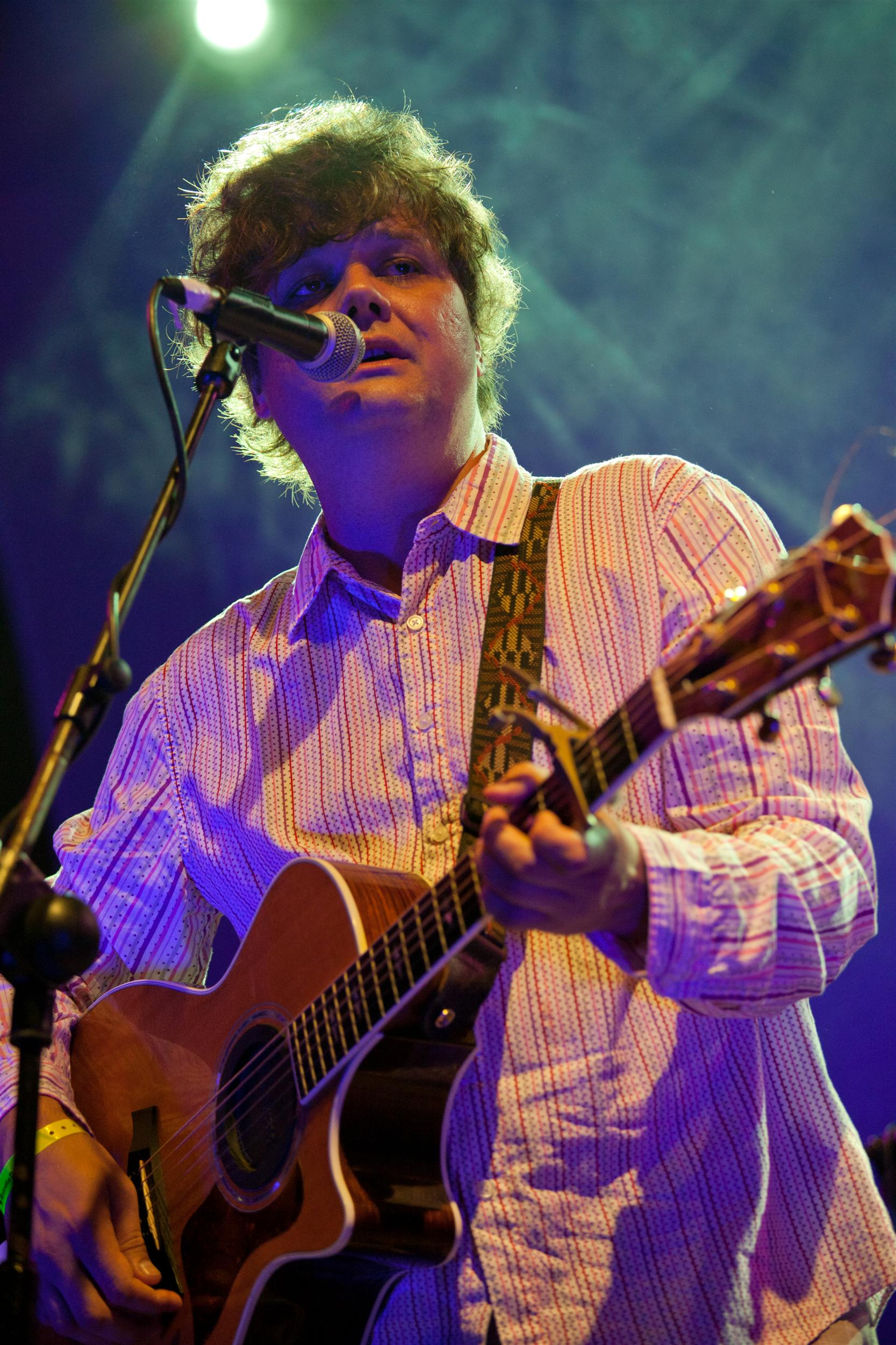 Ron Sexsmith at the Faraday Music Festival 2011.